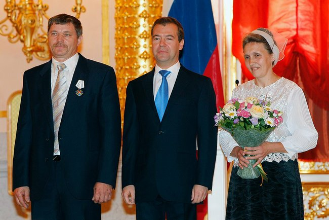 Russian president Dmitry Medvedev presenting the Order of Parental Glory to Hope and Ivan Pinchuk for successfully raising 13 children.